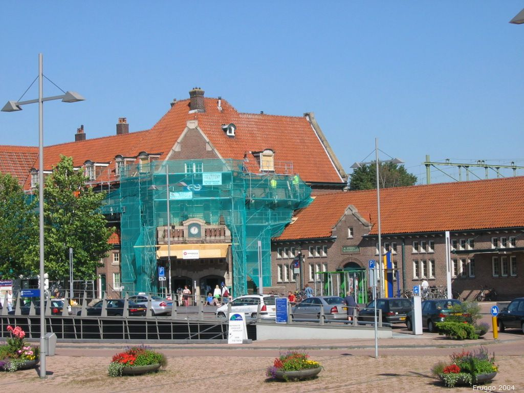 Train station of Deventer